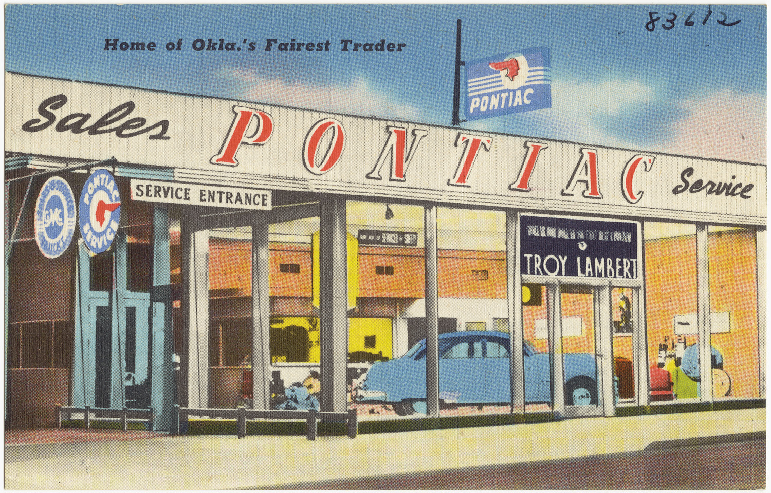 File name: 06_10_016895 Title: Home of Okla.'s fairest trader, Troy Lambert Pontiac Created/Published: Nationwide Post Card Co., Arlington, Texas Date issued: 1930 - 1945 (approximate) Physical description: 1 print (postcard) : linen texture, color ; 3 1/2 x 5 1/2 in. Genre: Postcards Subjects: ; Commercial facilities Notes: Collection: The Tichnor Brothers Collection Location: Boston Public Library, Print Department Rights: No known restrictions